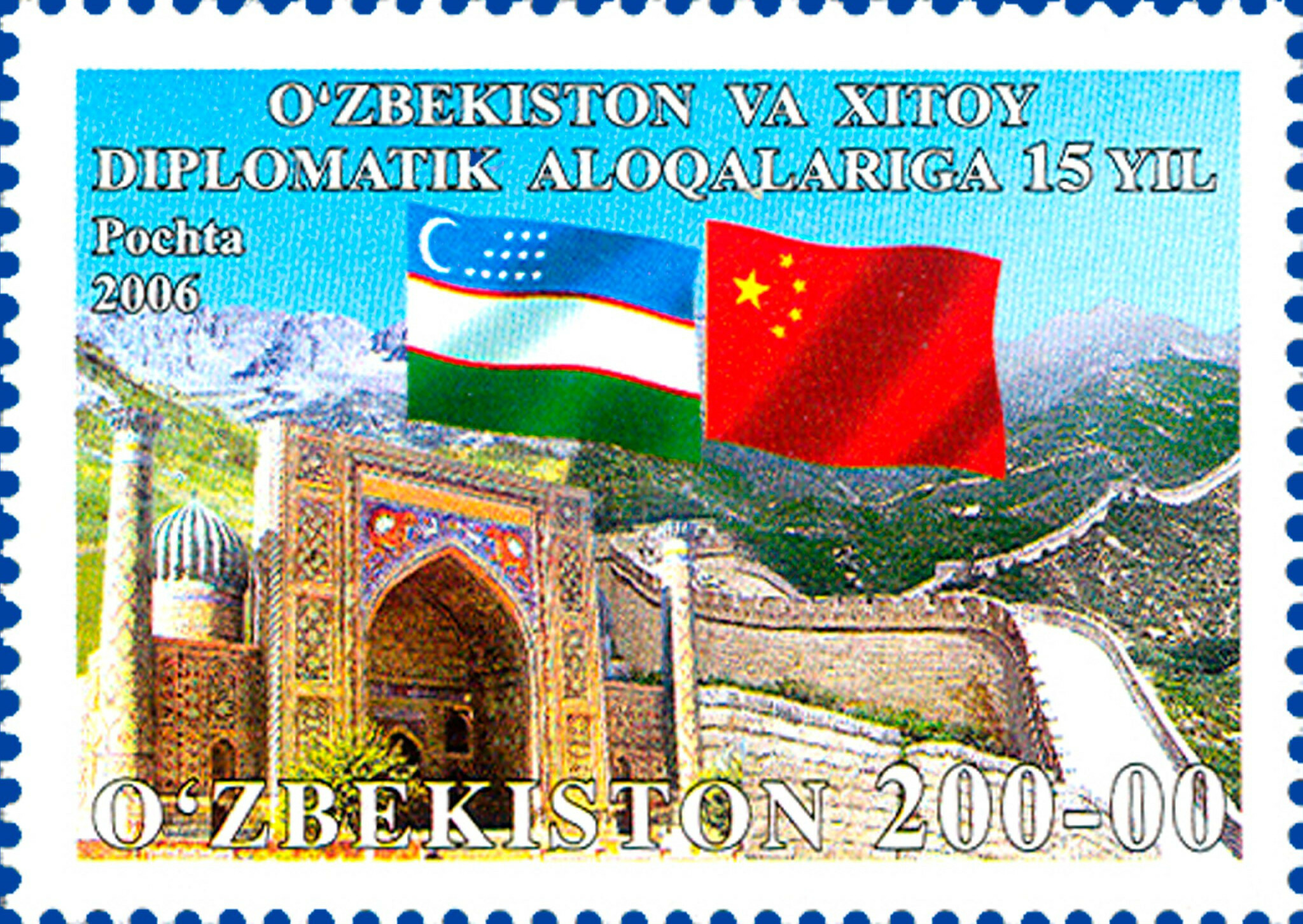 Stamps of Uzbekistan, 2006